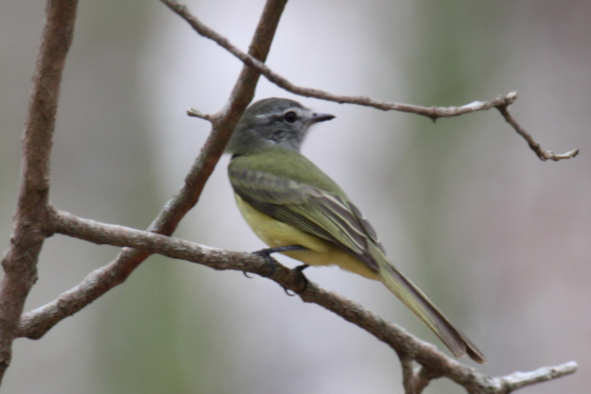 Myiopagis viridicata (Greenish Elaenia), Yucatán